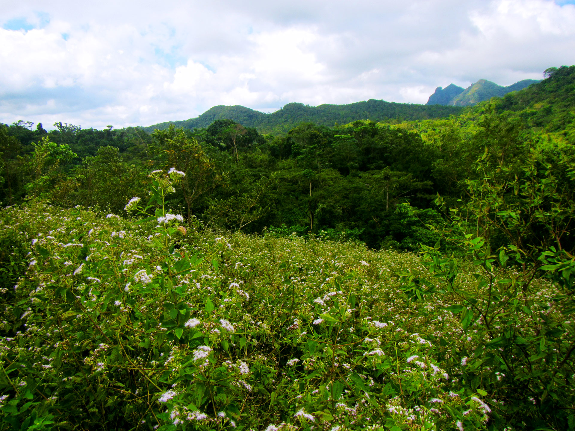 View of Mt. Pico De Loro at a vantage point from the valley between Mt. Mataas na Gulod and Mt. Dos Picos at the middle of the Palay-Palay Mataas na Gulod Protected Landscape of Cavite during its first mapping expedition to the jungle by Schadow1 Expeditions.